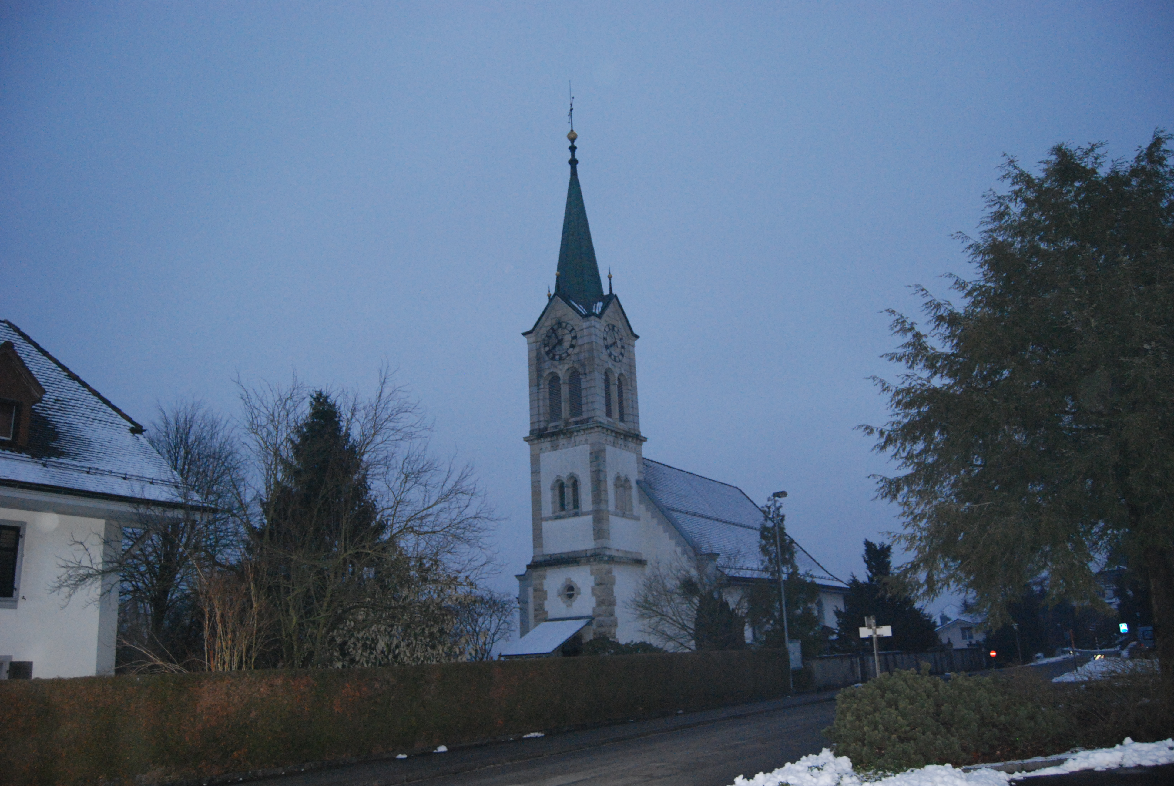 Church of Rothrist, canton of Aargau, SwitzerlandEsperanto: Preĝejo de Rothrist, Kantono Argovio, Svislando